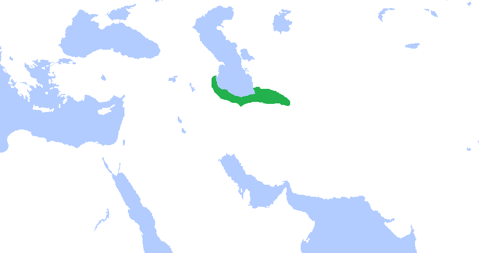 This is a map of the Dabuyid dynasty at it's greatest extent, probably under Farrukhan the Great.